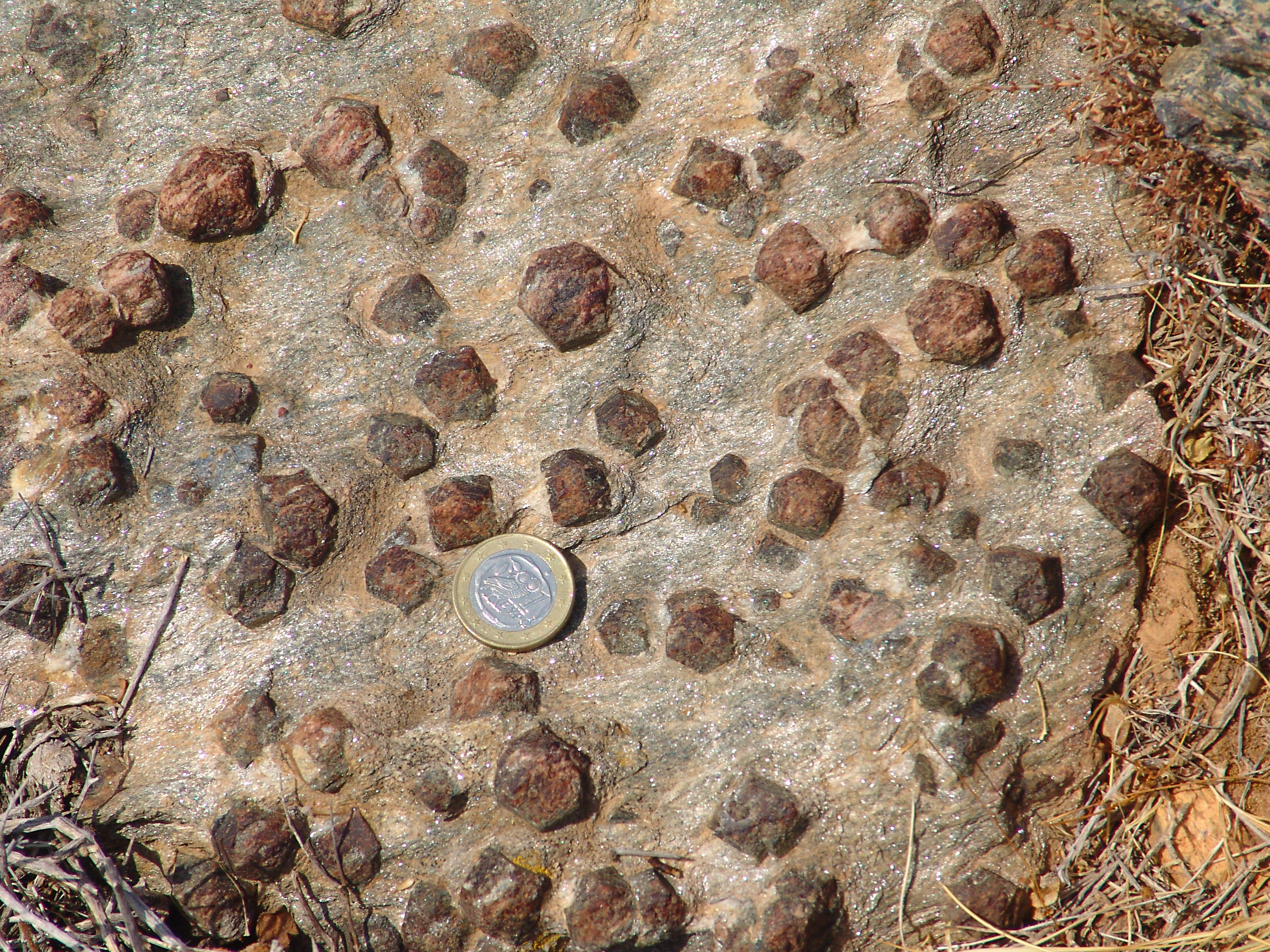 Garnet mica schist on Syros in Greece, showing porphyroblasts of garnet. Scale: the euro coin has a diameter of 23 millimetres.